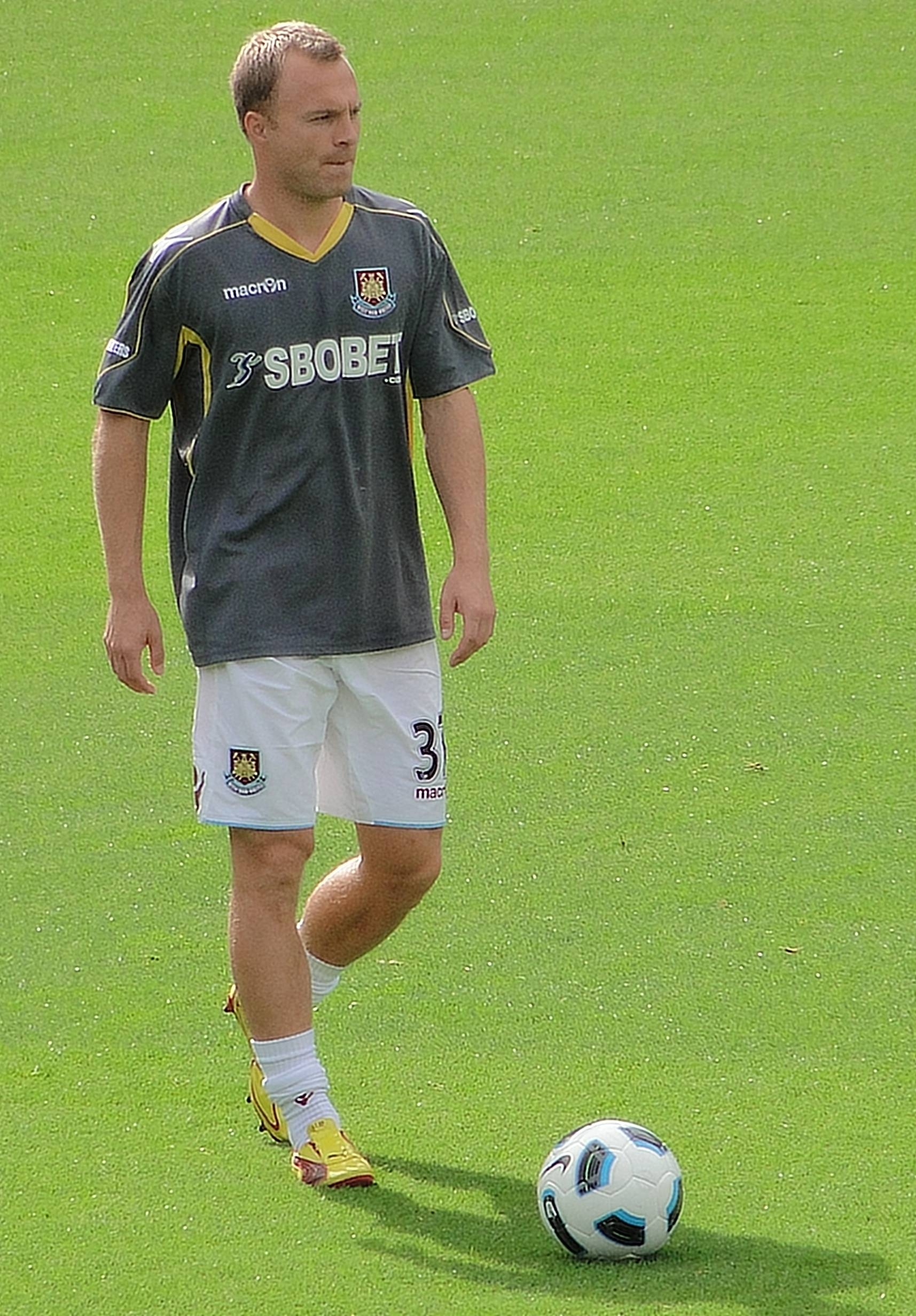 West Ham player Lars Jacobsen, before his West Ham debut game, against Chelsea on 11/09/2010